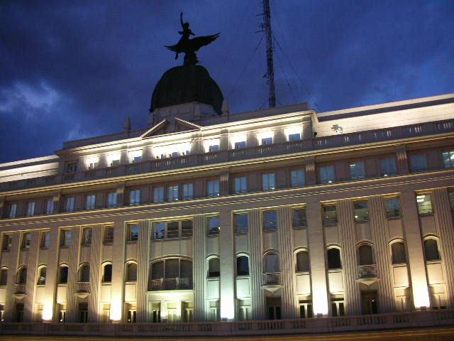 Night view of the Madrid-Paris Building at 32 Gran Vía, a downtown avenue in Madrid (Spain). Projected in 1920 by architect Teodoro de Anasagasti Algán and engineer Maximiliano Jacobson, and built from 1922 to 1924. Altered by Anasagasti and Charles Siclis from 1934 to 1935.